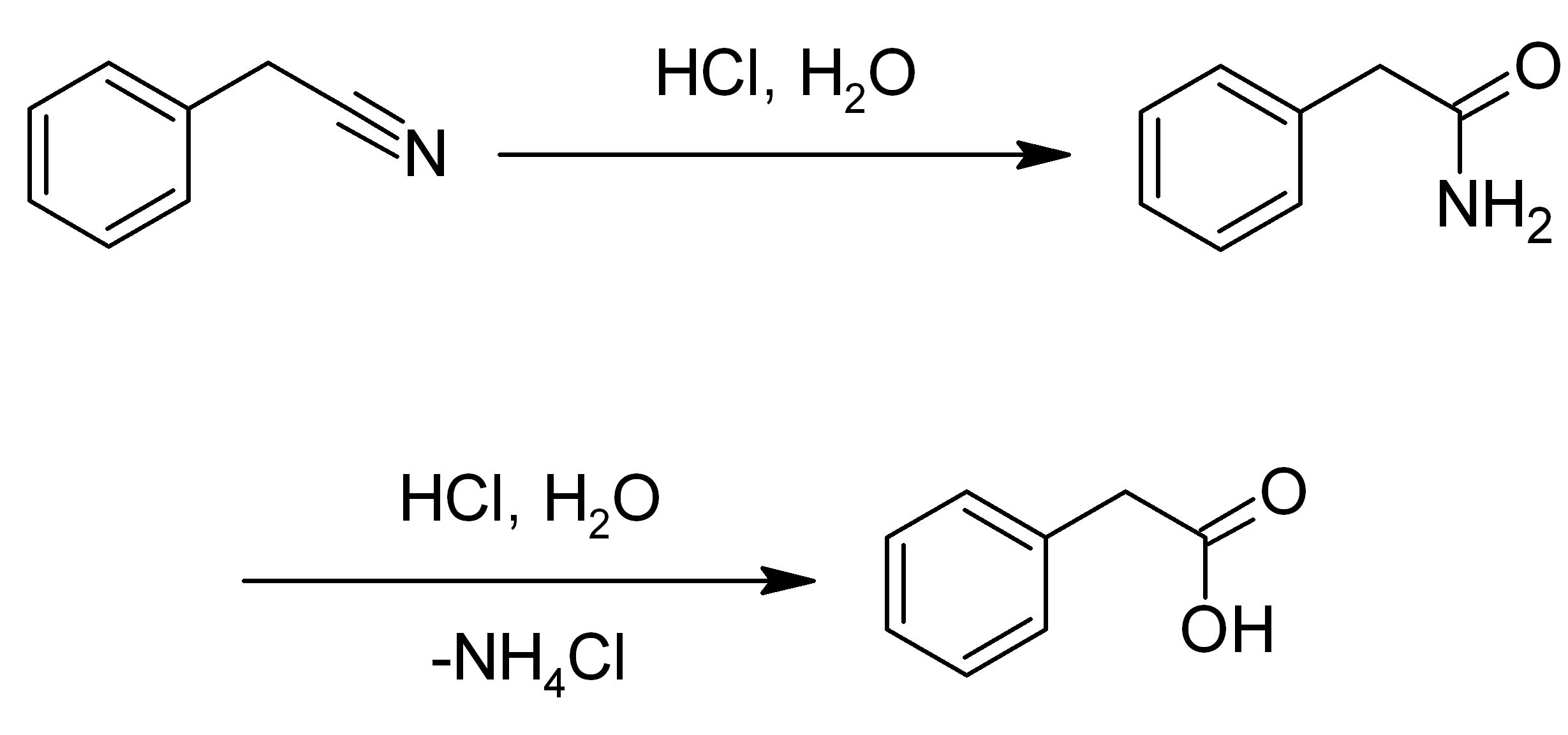 Synthesis of phenylacetic acid from benzyl cyanide Wilhelm Wenner (1963). "Phenylacetamide". Org. Synth.; Coll. Vol. 4: 760.